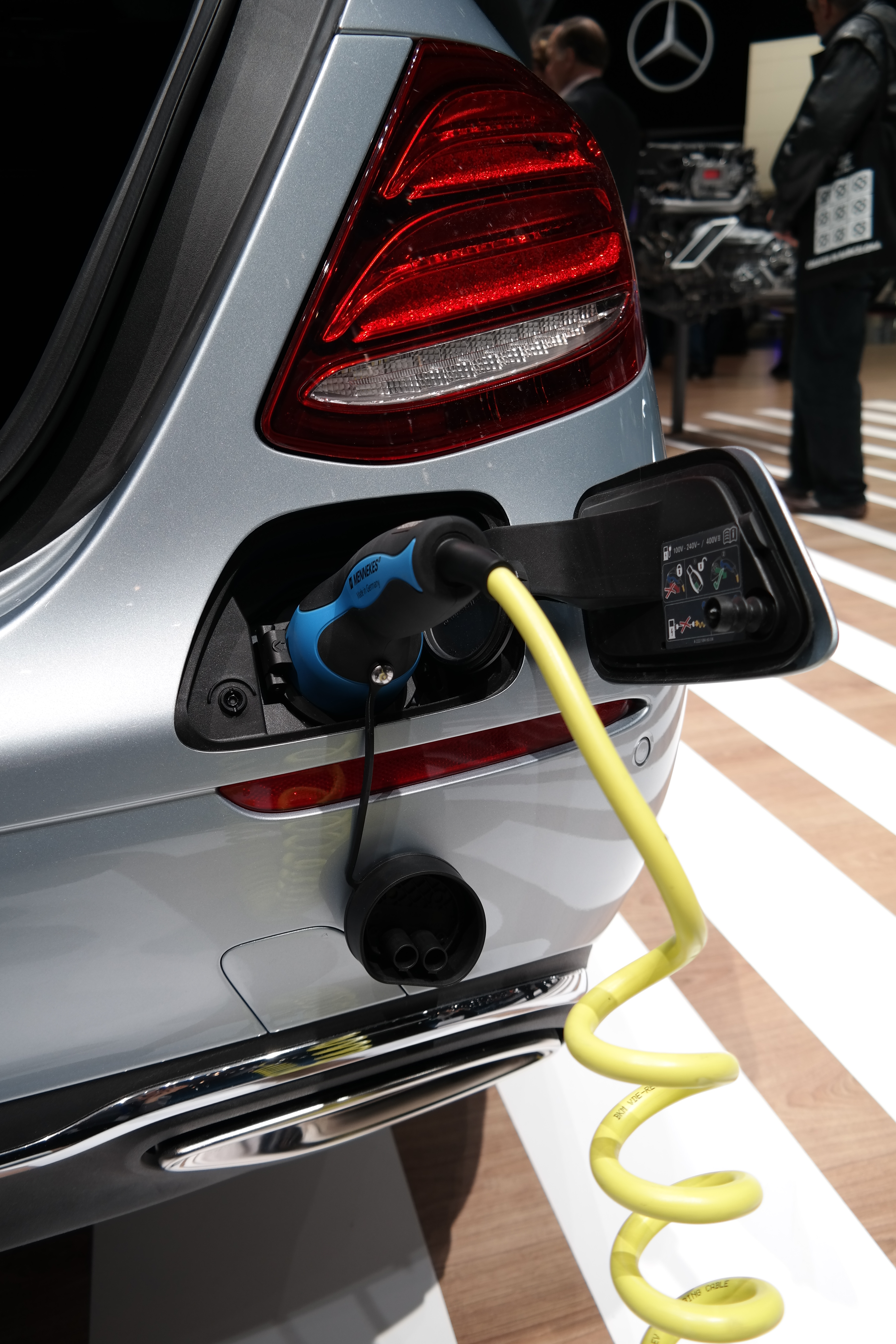 Geneva Motor Show 2016 (photo taken on the first press day)